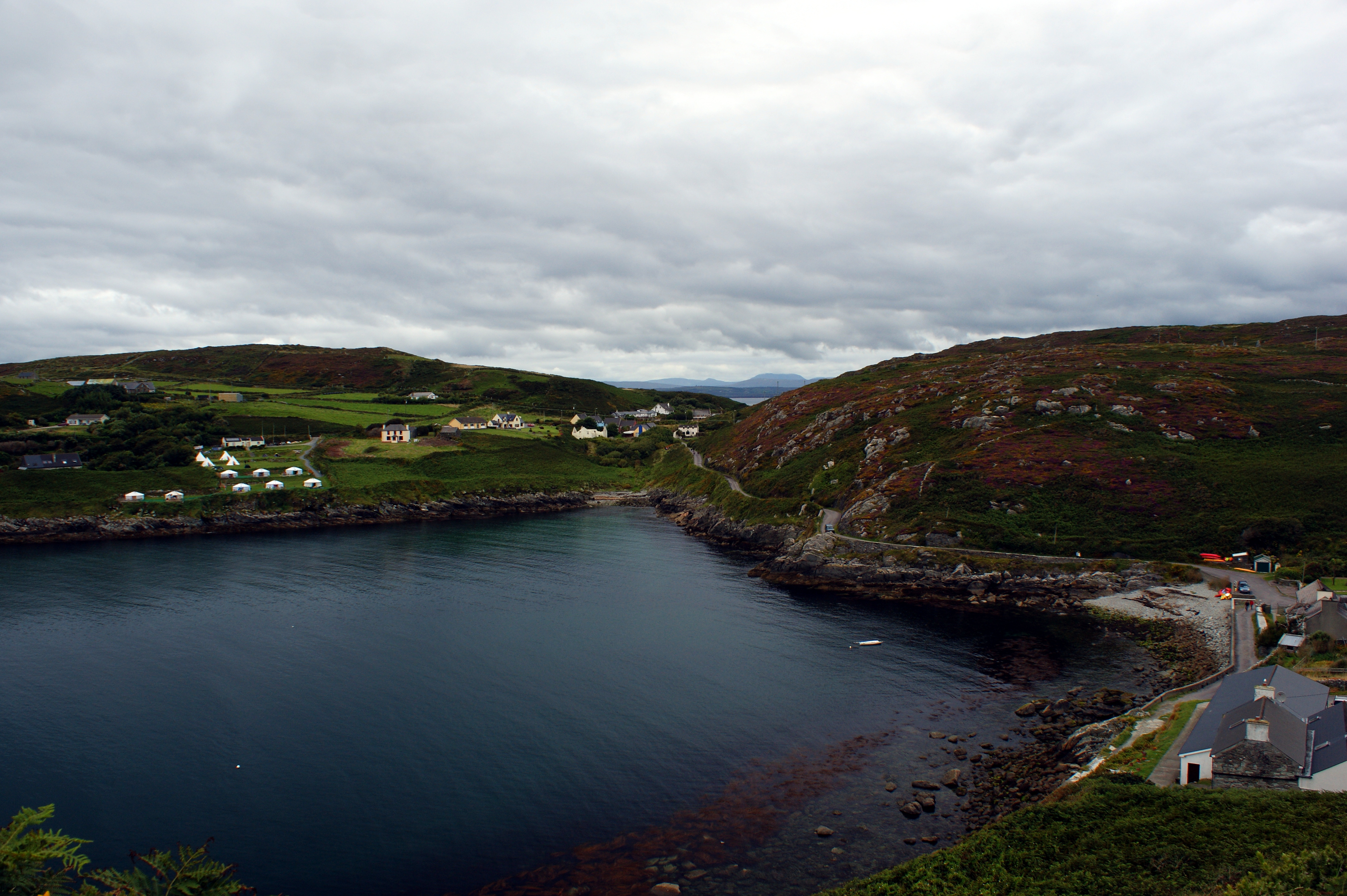 Bay on Cape Clear Island